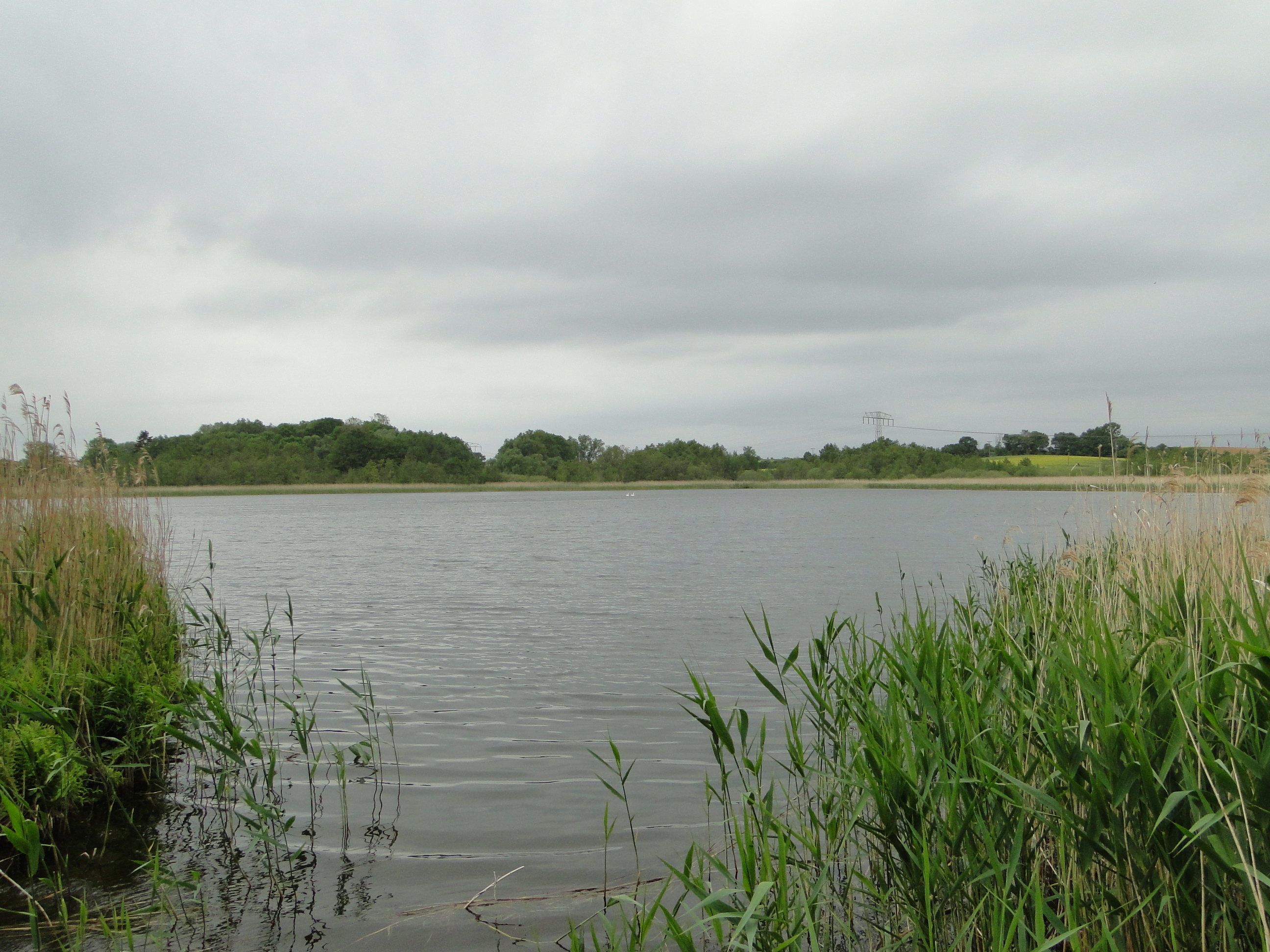 Lake Nienhäger See in Nienhagen, district Güstrow, Mecklenburg-Vorpommern, Germany